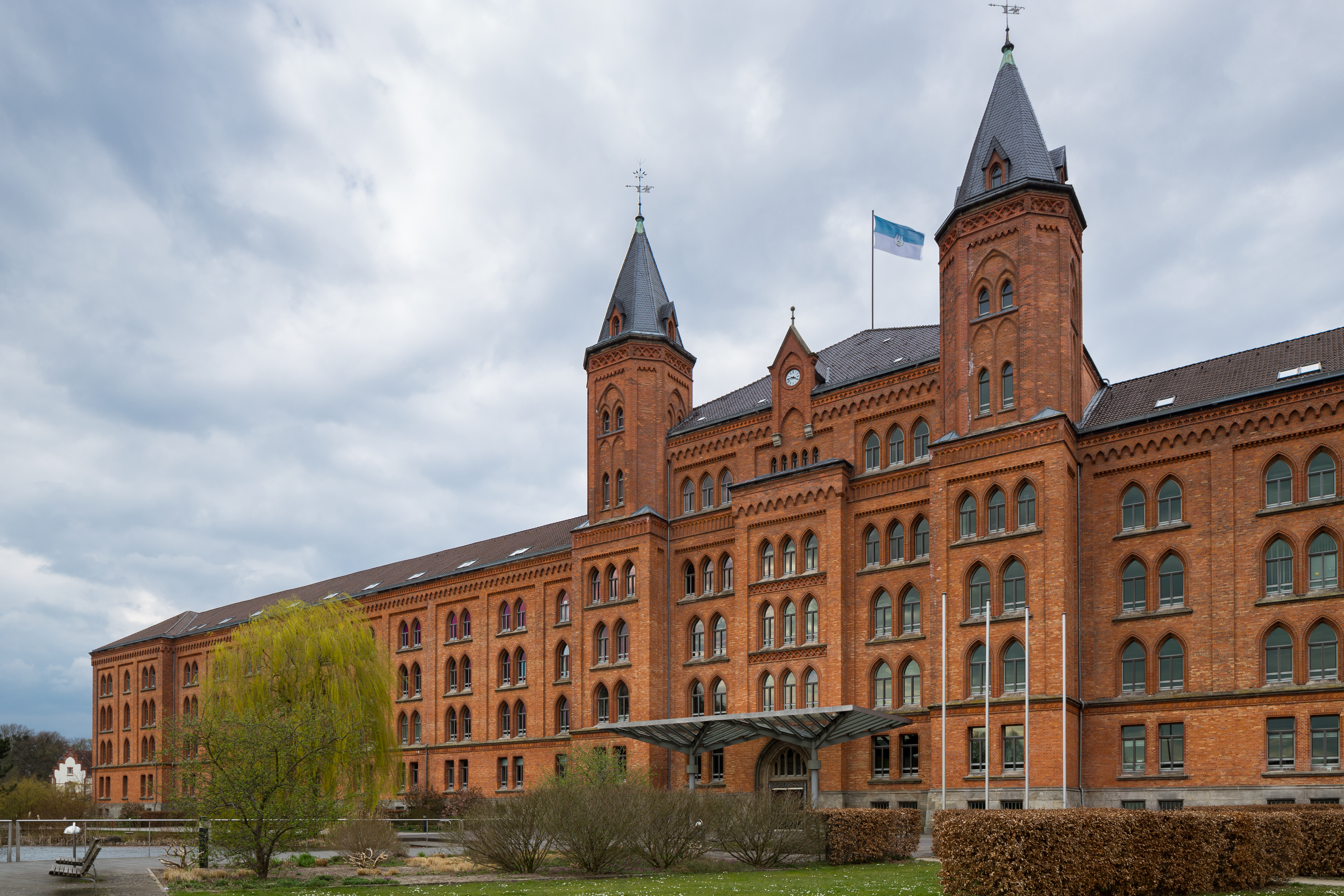 New townhall located in Celle, Lower Saxony, Germany.